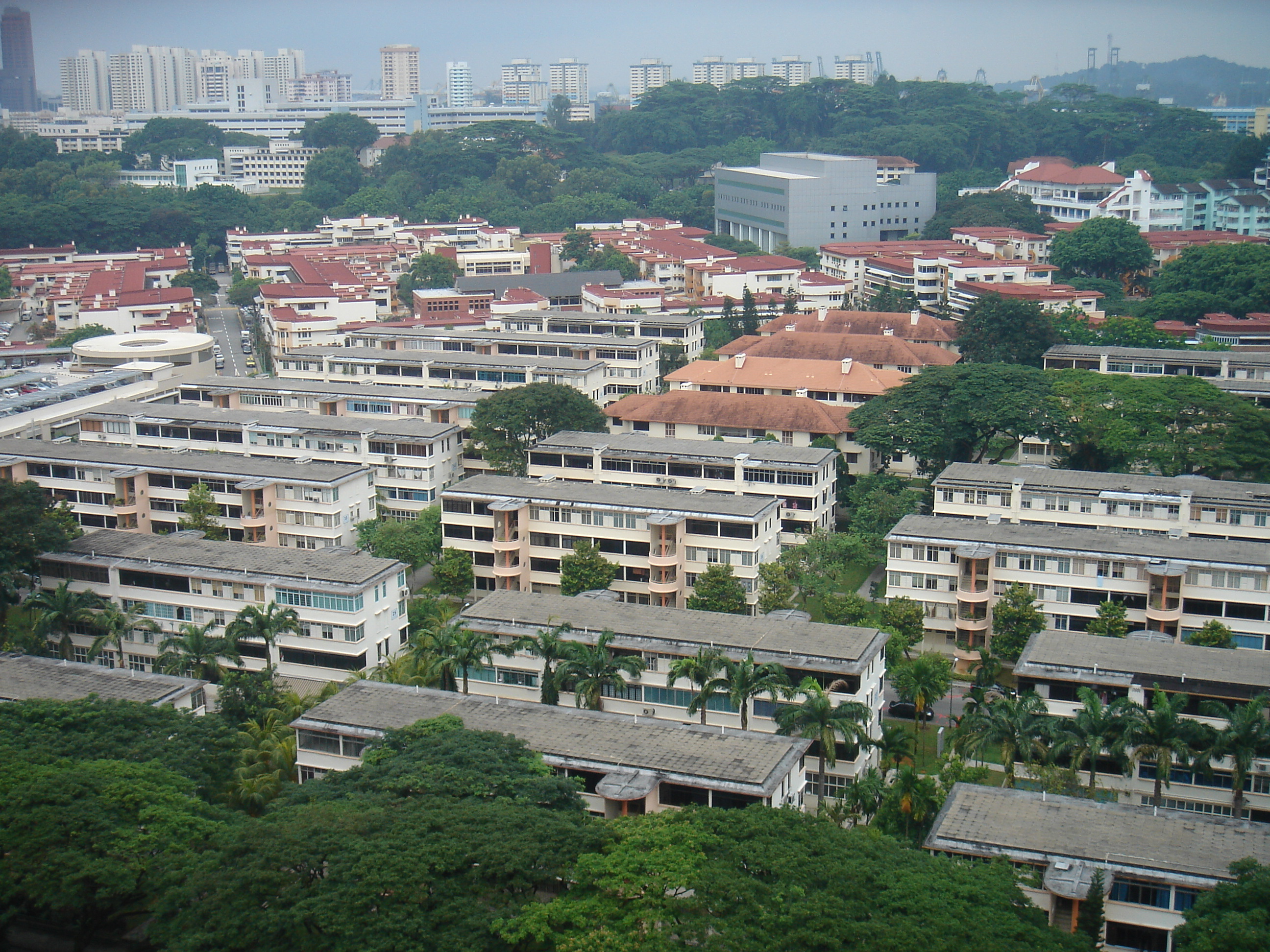 Singapore Improvement Trust Housing at Tiong Bahru, Singapore. (Top view)